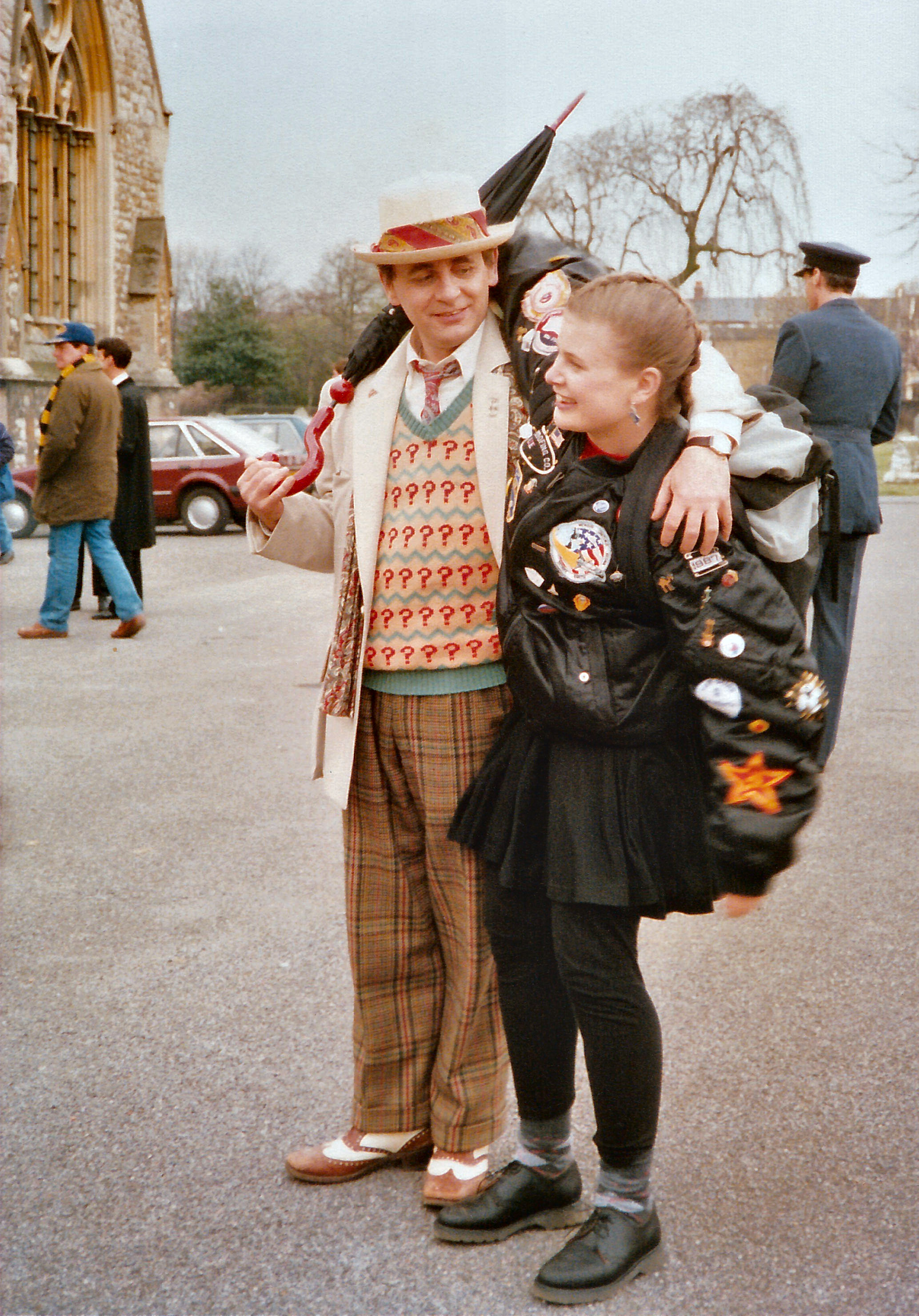 Sylvester McCoy and Sophie Aldred on location for Remembrance of the Daleks